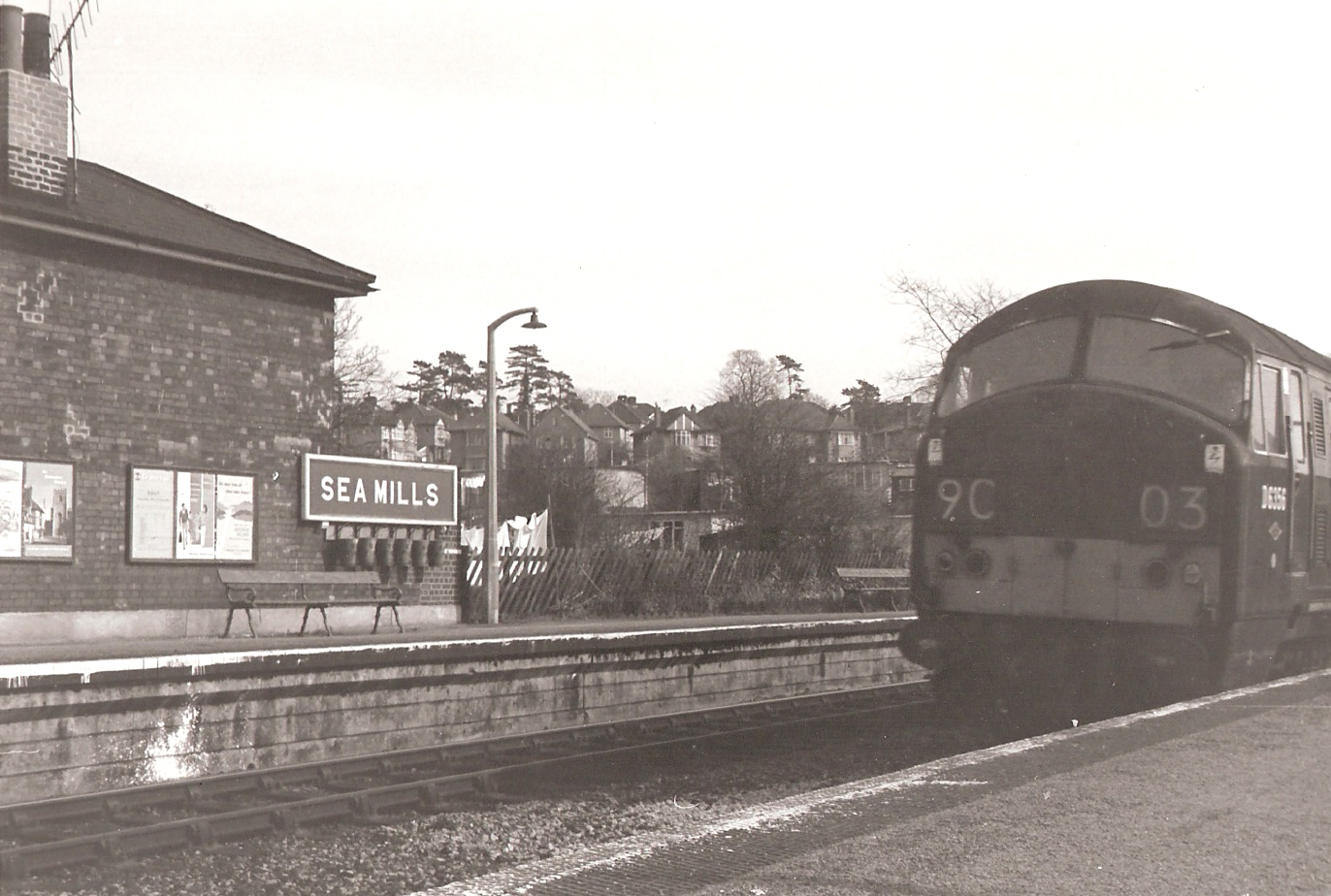 Allocated new to Bristol Bath Road mpd 24.8.1962, transferred to Old Oak Common 1.11.1964, withdrawn 14.9.1968. Scanned from print.